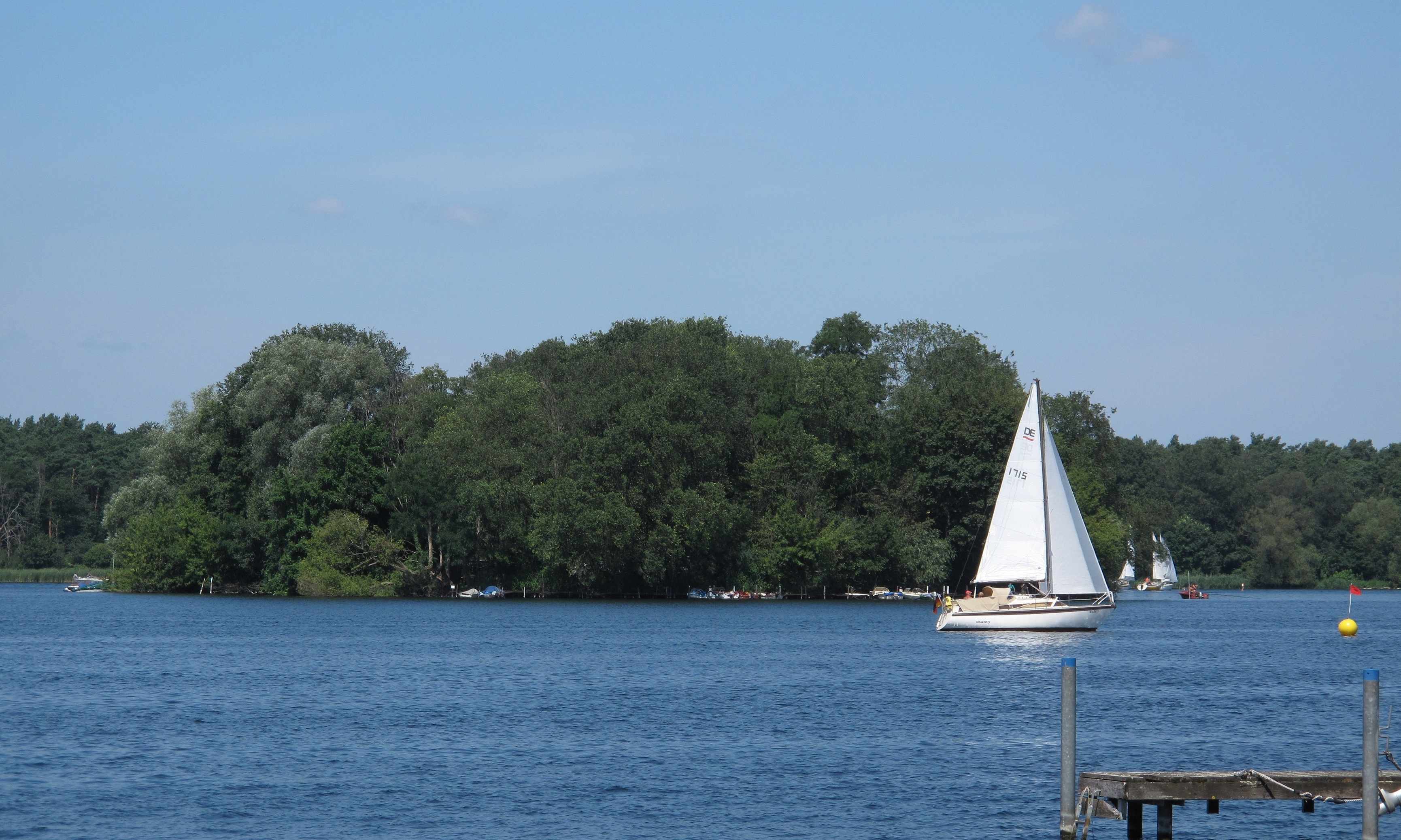 View from the eastern bank of the Lake Tegel to the island Lindwerder. The lake is situated in Berlin, Germany.